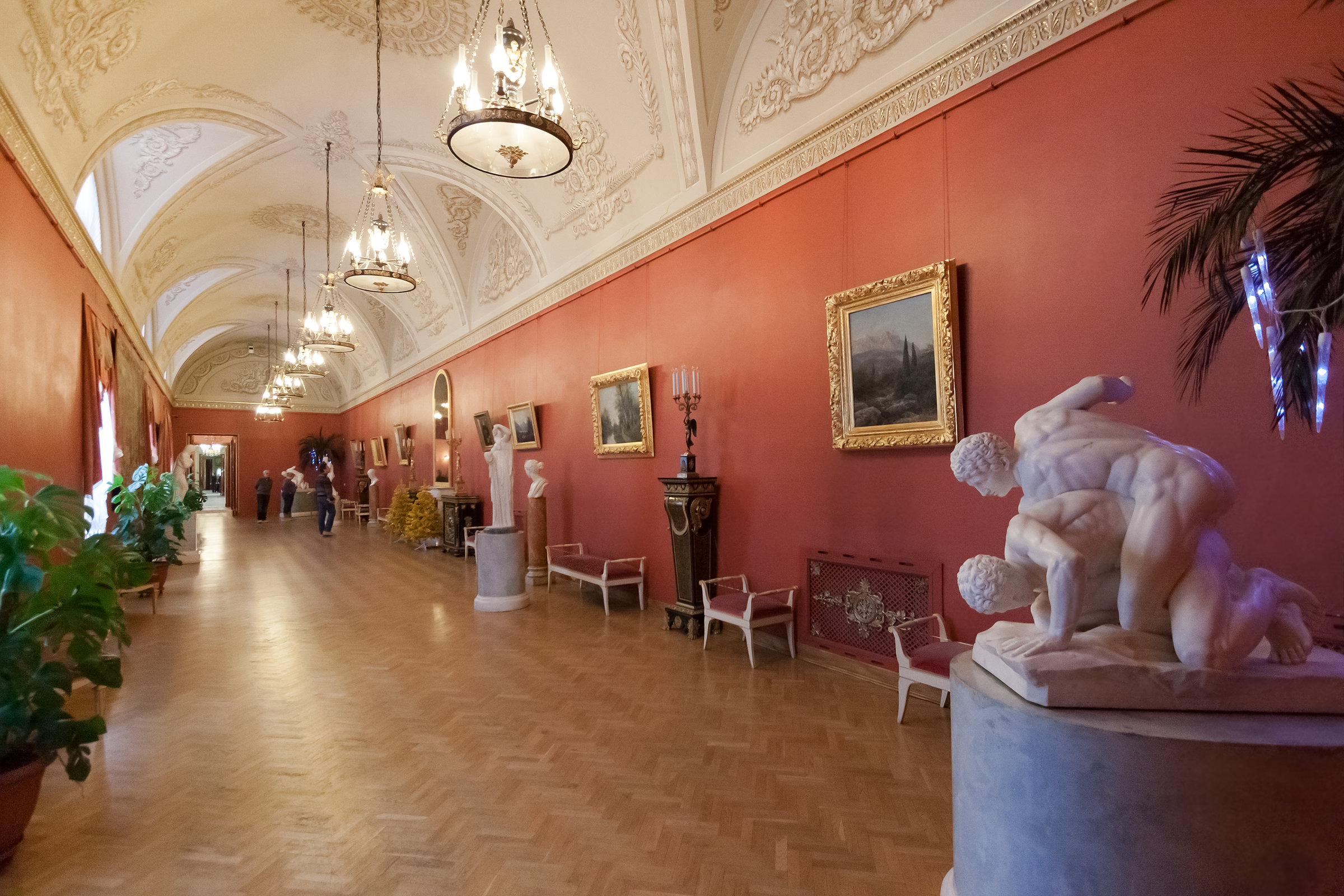 Antique Hall of the Yusupov Palace